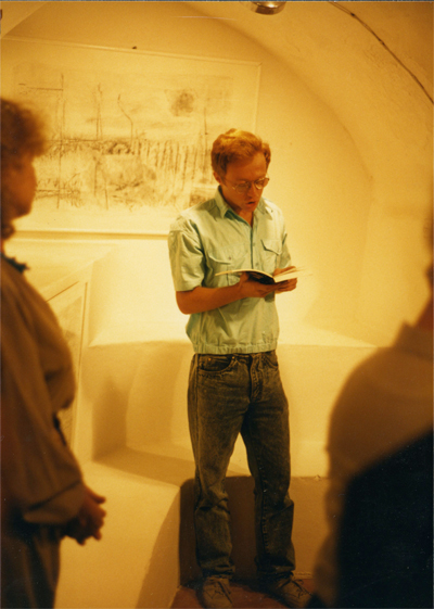 Photograph